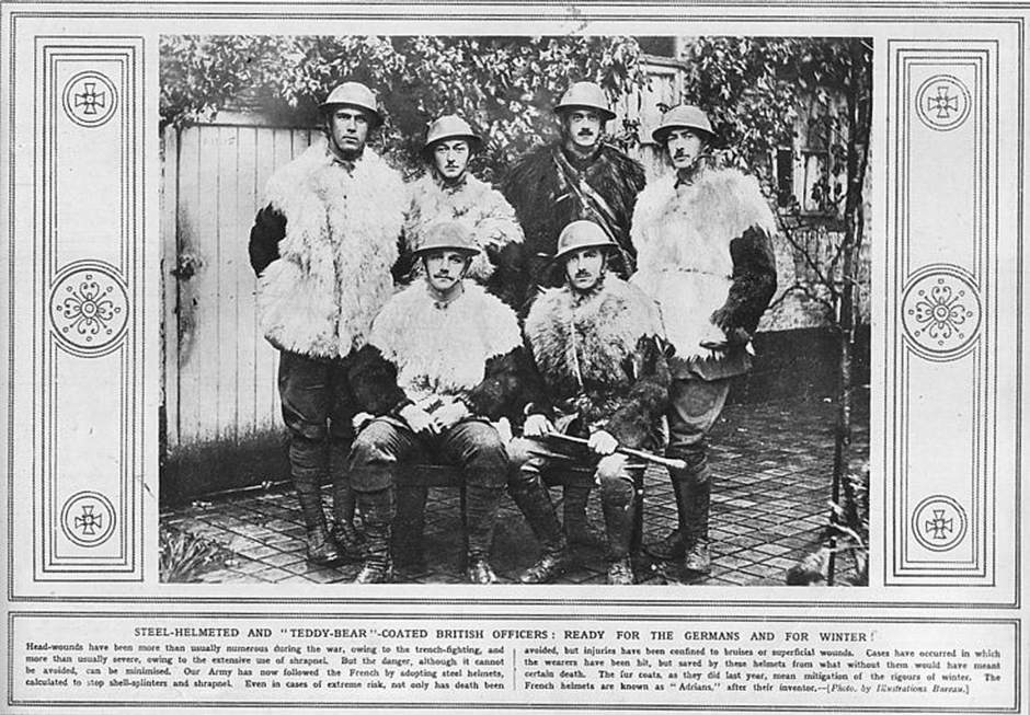 Illustrated War News Nov 1915, picture of officers wearing new Brodie helmets Scan generously provided by Peter Hayes. Original image from "Illustrated War News" - Nov 17 1915 The Text reads : Head-wounds have been more than usually numerous during the war, owing to the trench-fighting, and more than usually severe, owing to the extensive use of shrapnel. But the danger, although it cannot be avoided, can be minimised. Our Army has now followed the French by adopting steel helmets, calculated to stop shell-splinters and shrapnel. Even in cases of extreme risk, not only has death been avoided, but injuries have been confined to bruises or superficial wounds. Cases have occurred in which the wearers have been hit, but saved by these helmets from what without them would have meant certain death. The fur coats, as they did last year, mean mitigation of the rigours of winter. The French helmets are known as "Adrians," after their inventor, — (Photo by Illustrations Harrow).